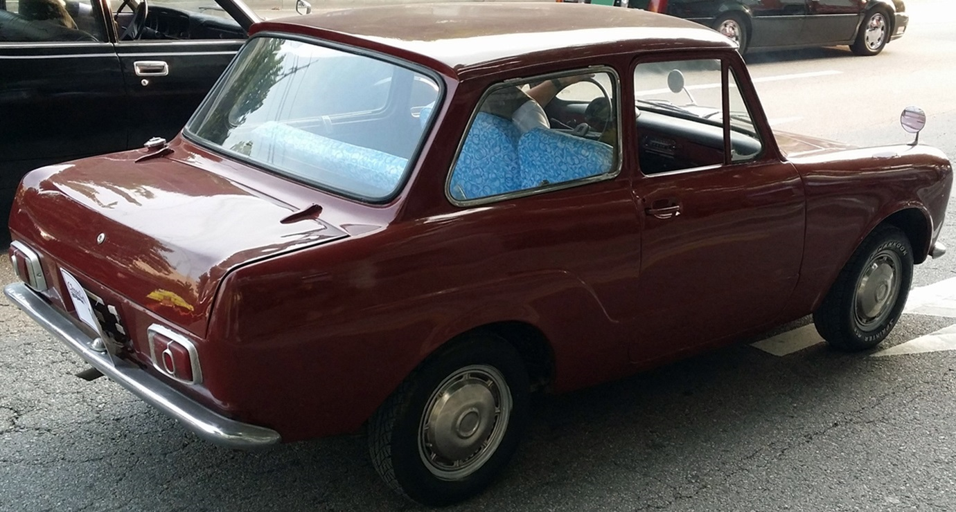 Shinjin Publica